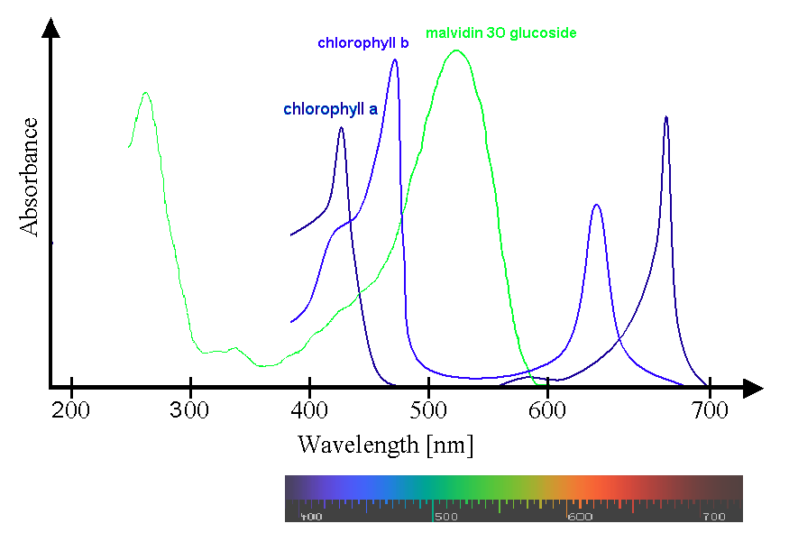 Superposition of spectra of chlorophyll a and b with oenin (malvidin 3O glucoside), a typical anthocyanin. The coloured scale means the color of the absorption light. (not the visible color of the dye)